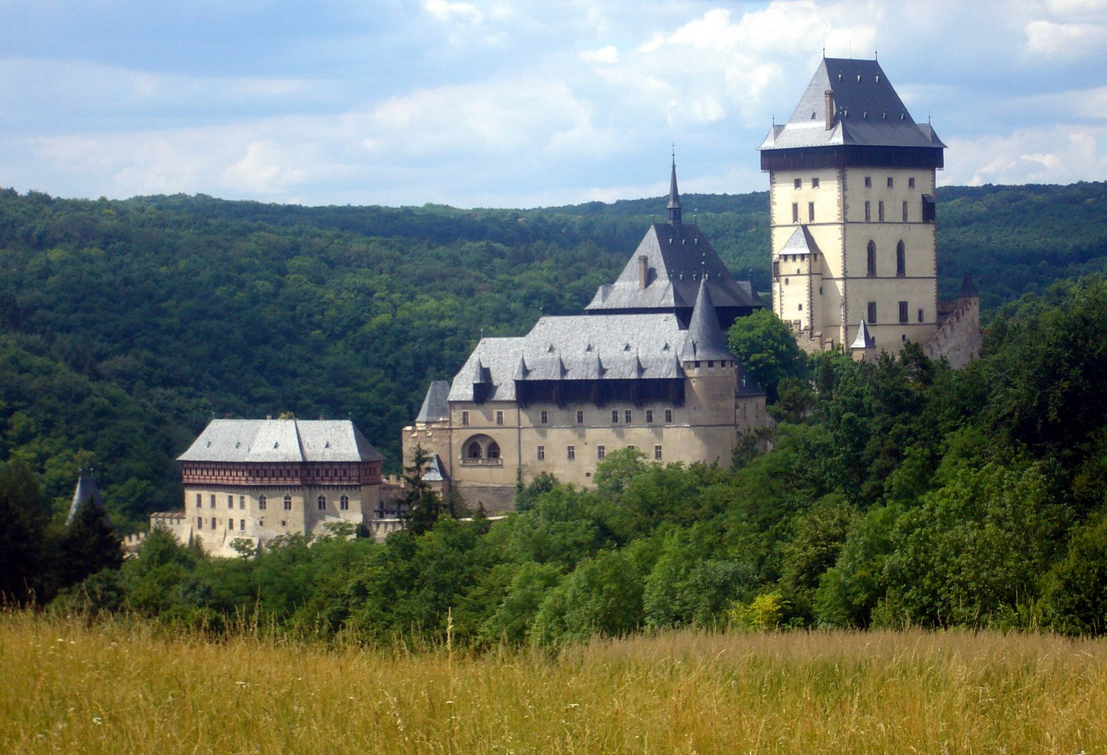 czech castle Karlštejn